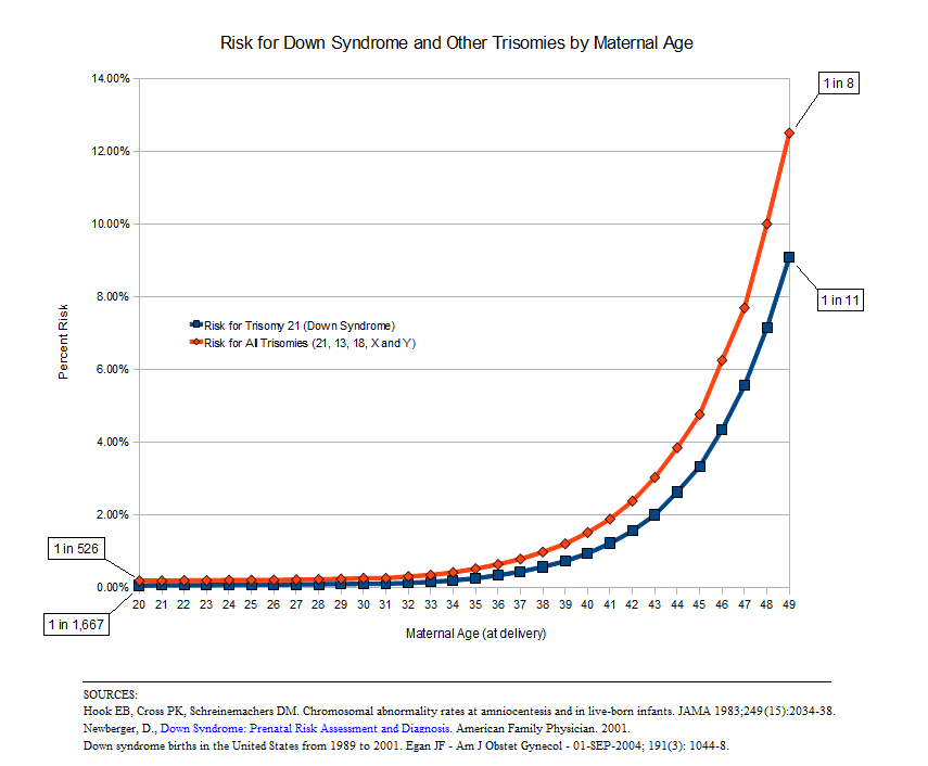 A graph of data showing the risk (as a percentage of live births) of down syndrome, along with other trisomies by age of the mother (at delivery). One reference for the data used to make this graph is here.